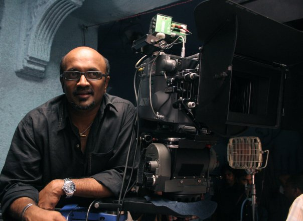 Photo of cinematographer Ravi K Chandran